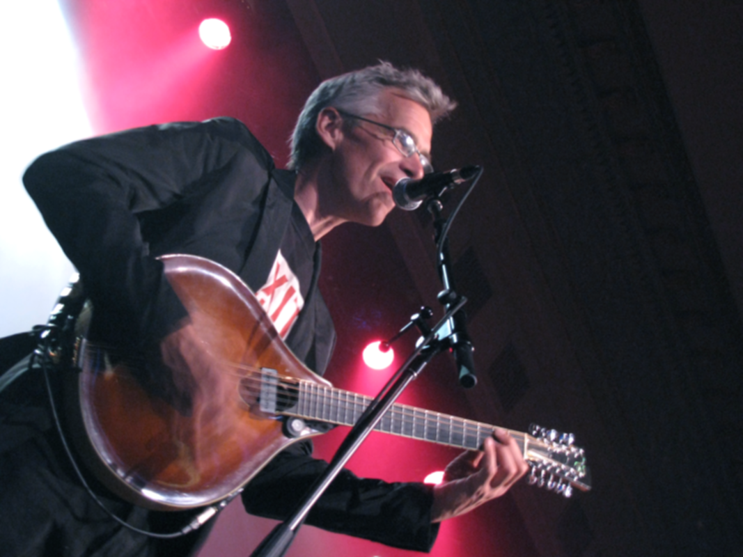 Hugh McMillan of Spirit of the West playing a mandolin at show in Calgary at Flames Central.